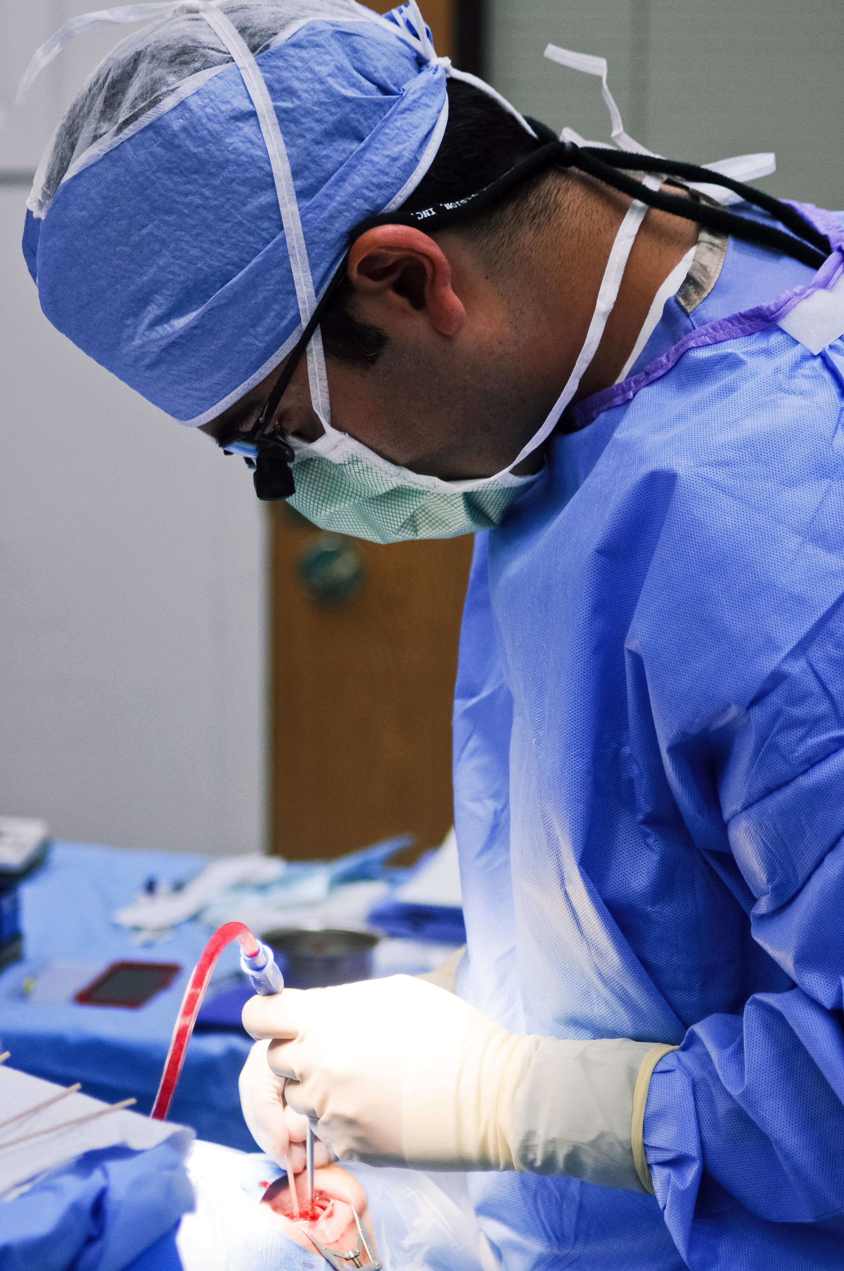 Oculoplastic Surgeon Kami Parsa, MD performing an Enucleation of the eye procedure.